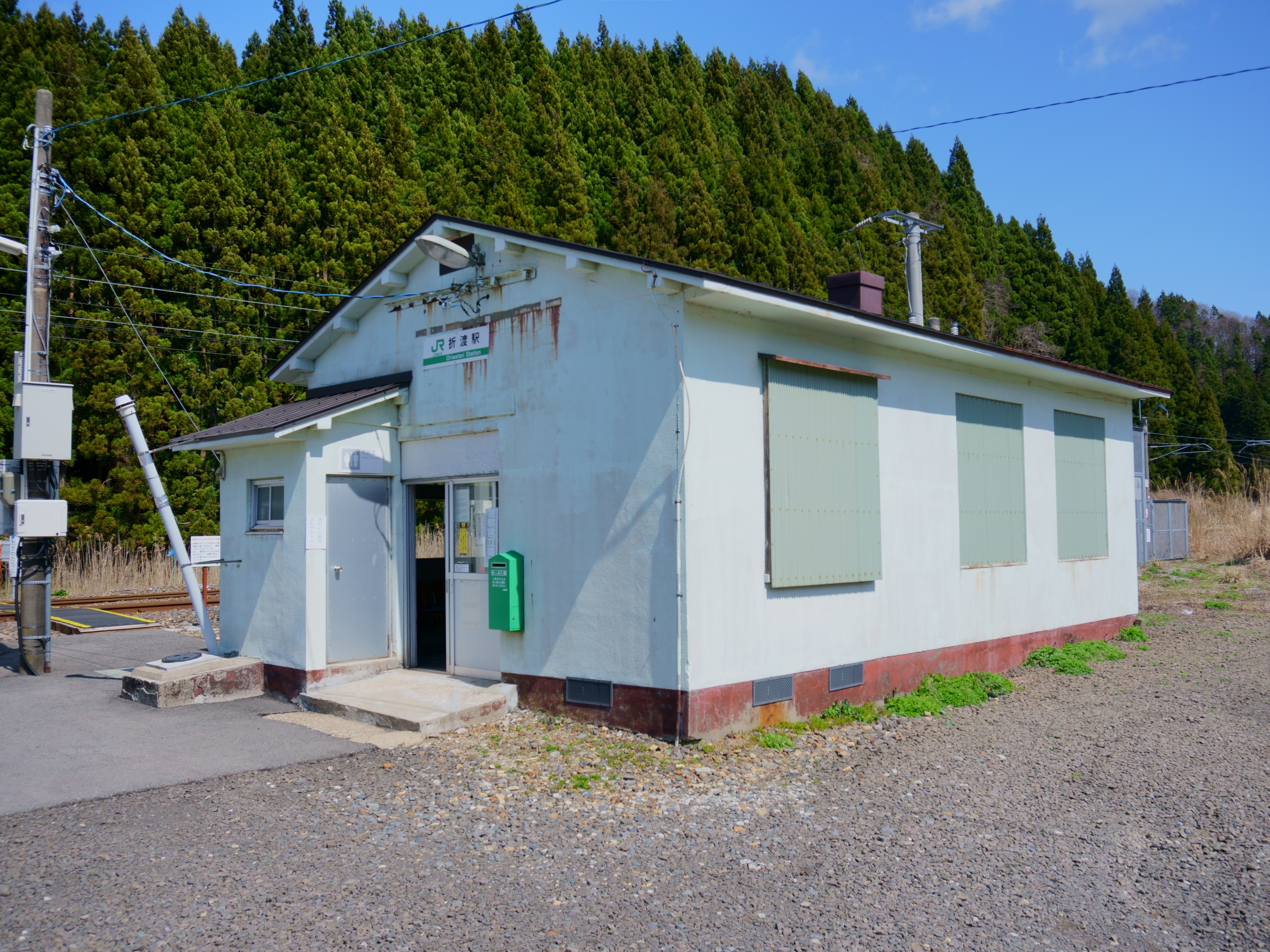 Oriwatari Station on the Uetsu Main Line, in Yurihonjo, Akita, Japan